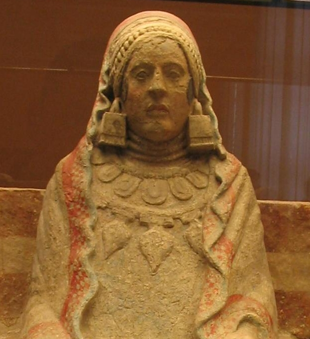 Detail of Dama de Baza (from File:Dama de Baza ampliada.jpg)